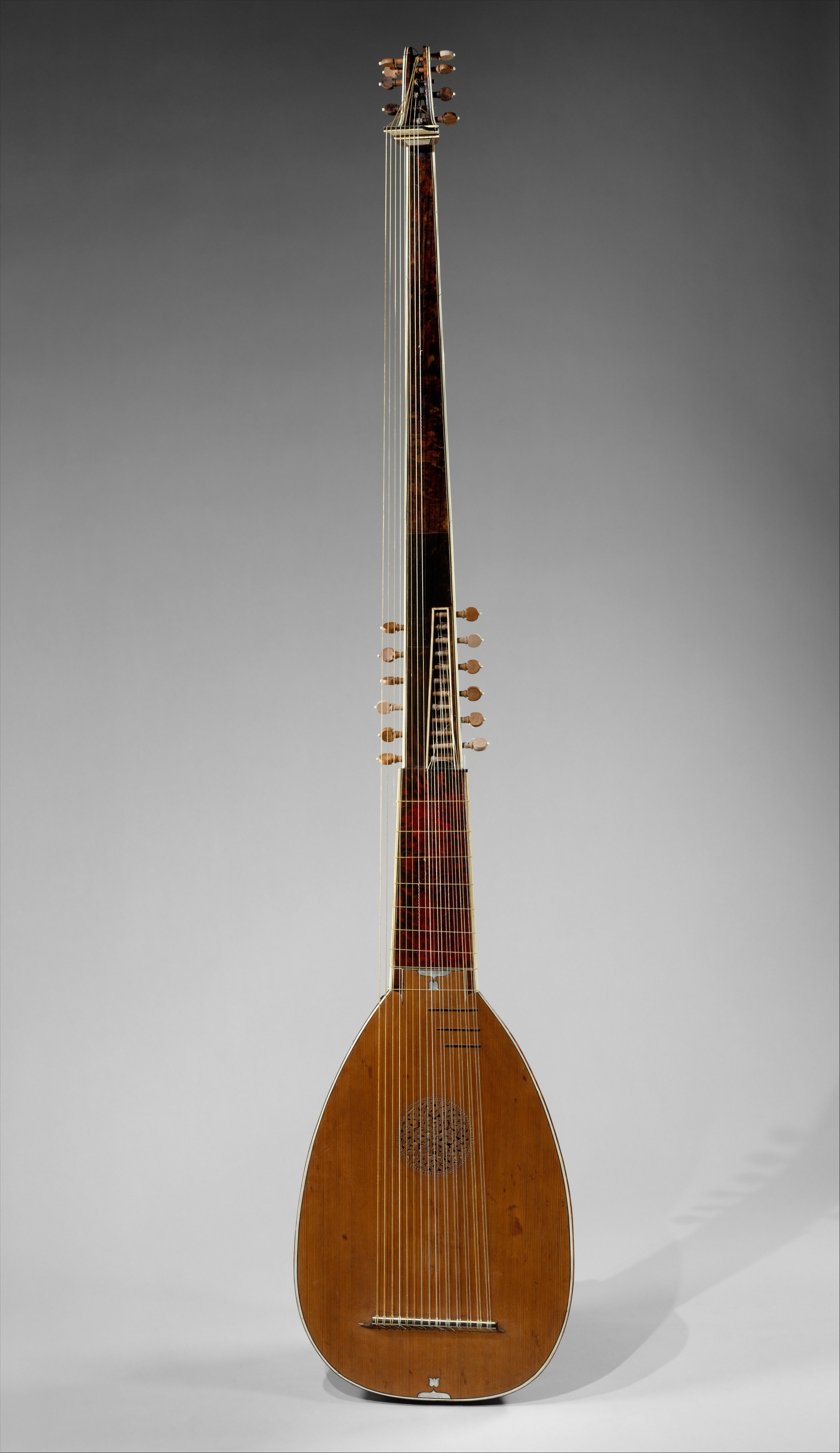 Italian; Archlute; Chordophone-Lute-plucked